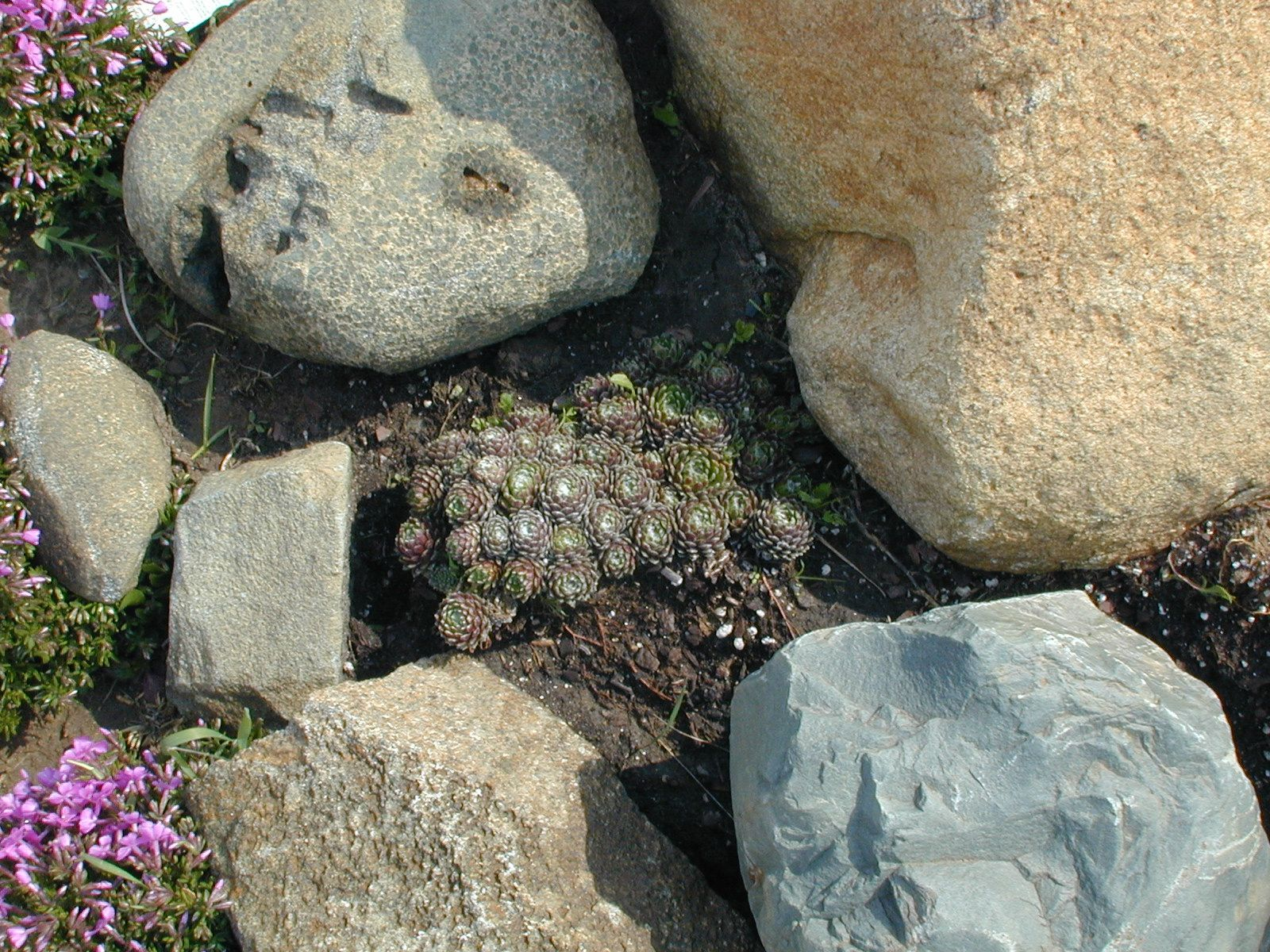 Image title: Big stones on ground Image from Public domain images website